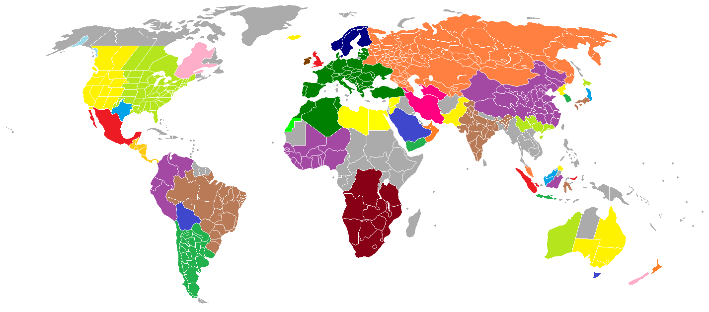 Map of some wide area synchronous grids worldwide